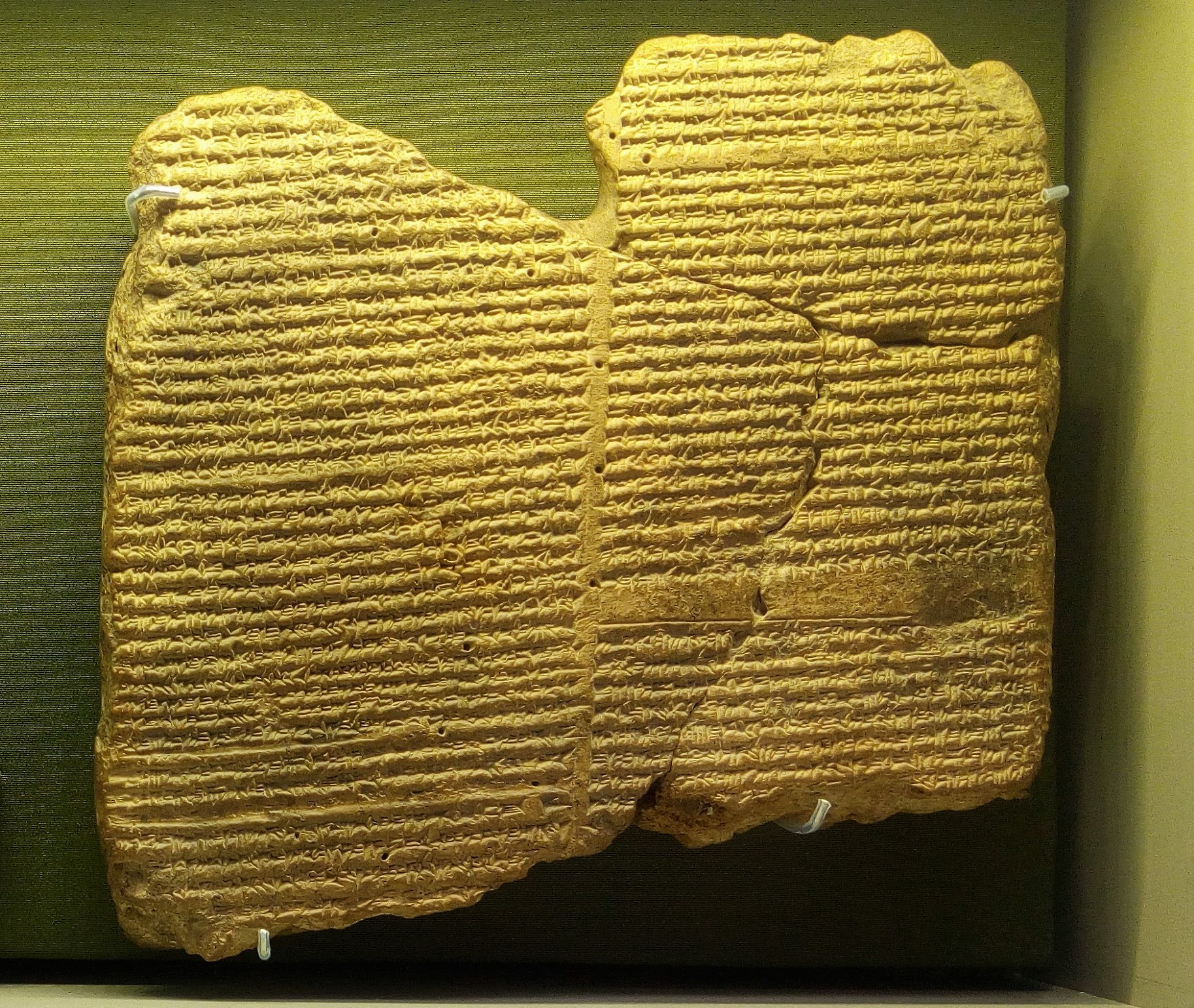 Inscription "L" : autobiography of Ashurbanipal, passage with a description of the knowledge acquired by the king, especially in divination, mathematics, literature, among others. 668 BC. ME K. 2694.